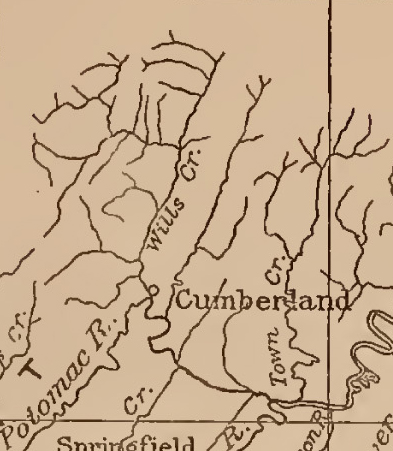 Map of Wills Creek and Town Creek Watersheds in Pennsylvania and Maryland taken from larger Map of Potomac River Watershed in The Potomac River Basin. Washington, DC: Government Printing Office, 1907.